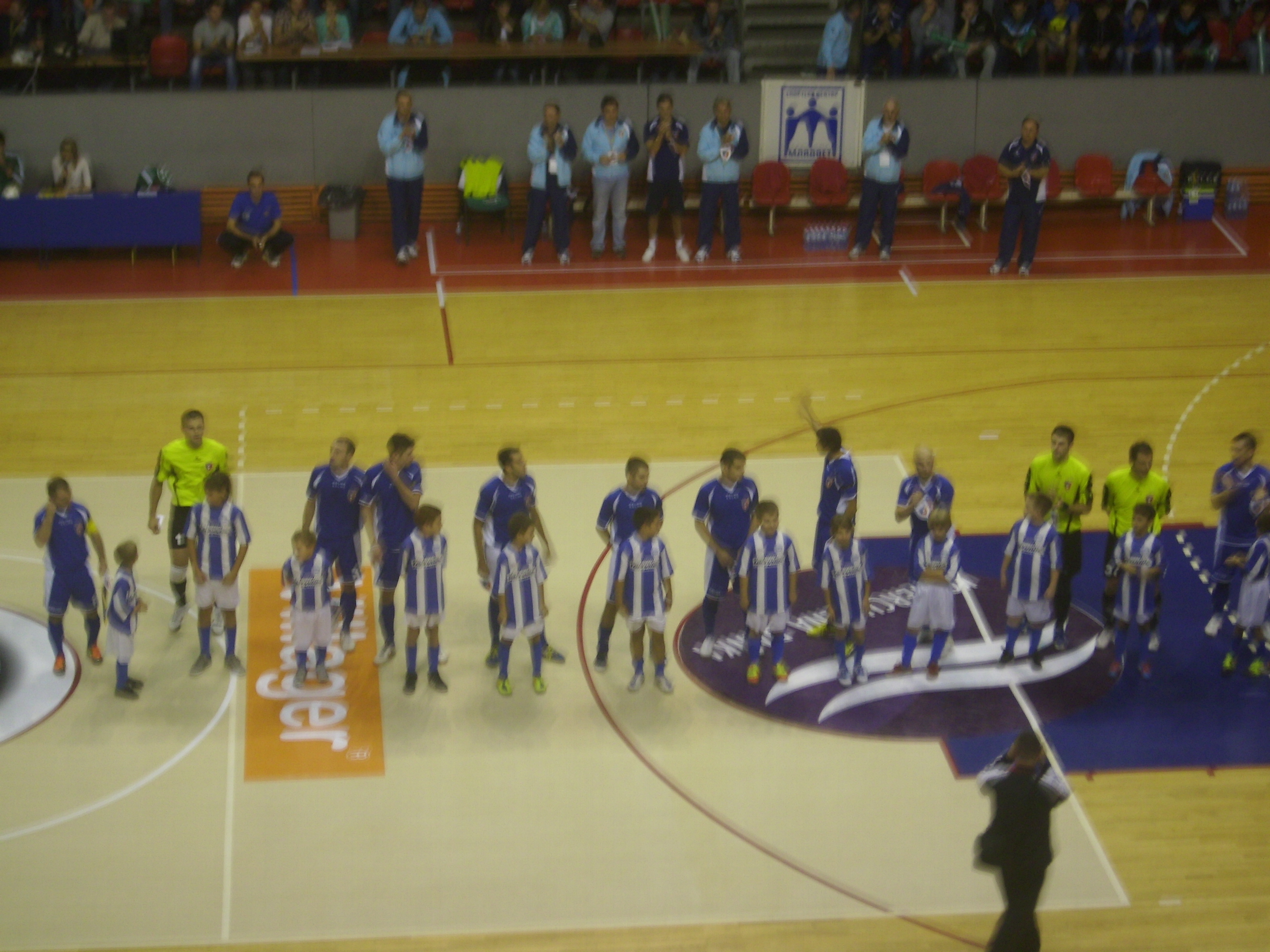 Futsal match KMF Ekonomac - Era-Pack Chrudim 10.10.2012 Српски (ћирилица): Футсал меч између екипе КМФ Економац и Era-Pack Chrudim 10.10.2012 у Крагујевцу, хала Језеро. Екипа Економца је у плавим дресовима, а Хрудима у белим.